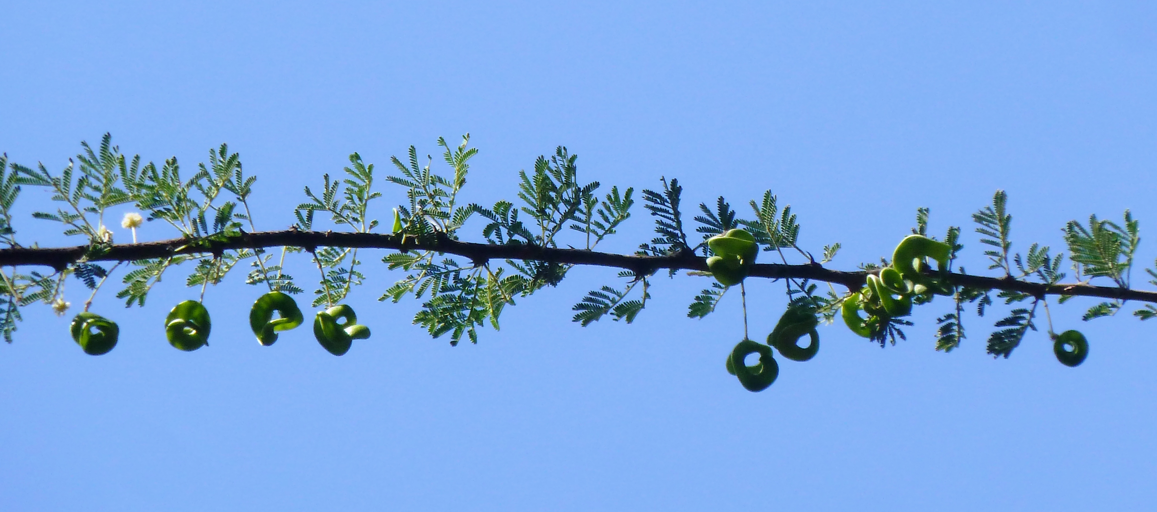 Foliage and pods of an Umbrella thorn in the Wonderboom Nature Reserve in Pretoria